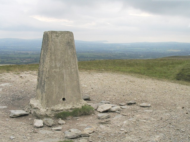 Frenni Fawr trig pillar. The view from Frenni Fawr out towards Newport Bay.